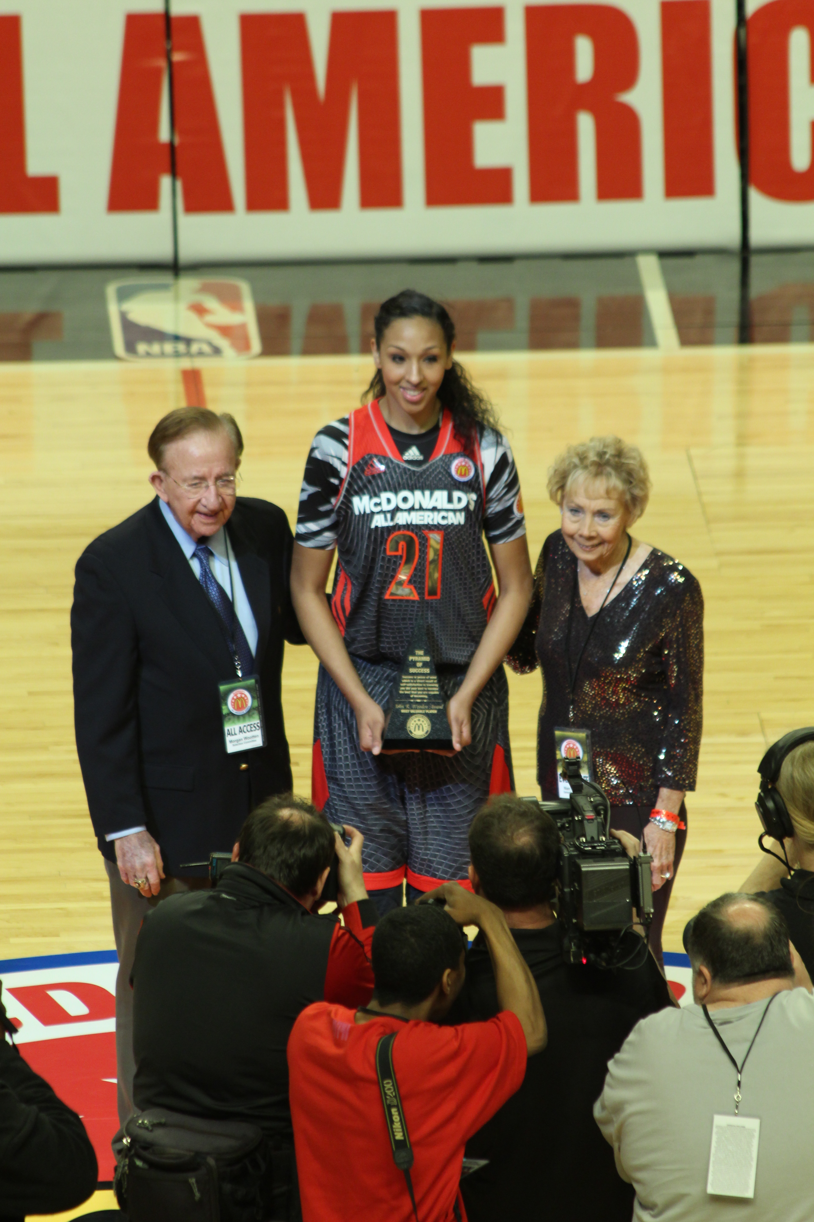 Mercedes Russell as MVP of the w:2013 McDonald's All-American Boys Game